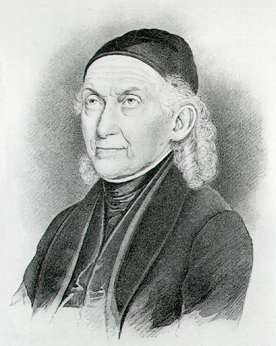 Portrait of Friedrich Egermann (1777-1864)